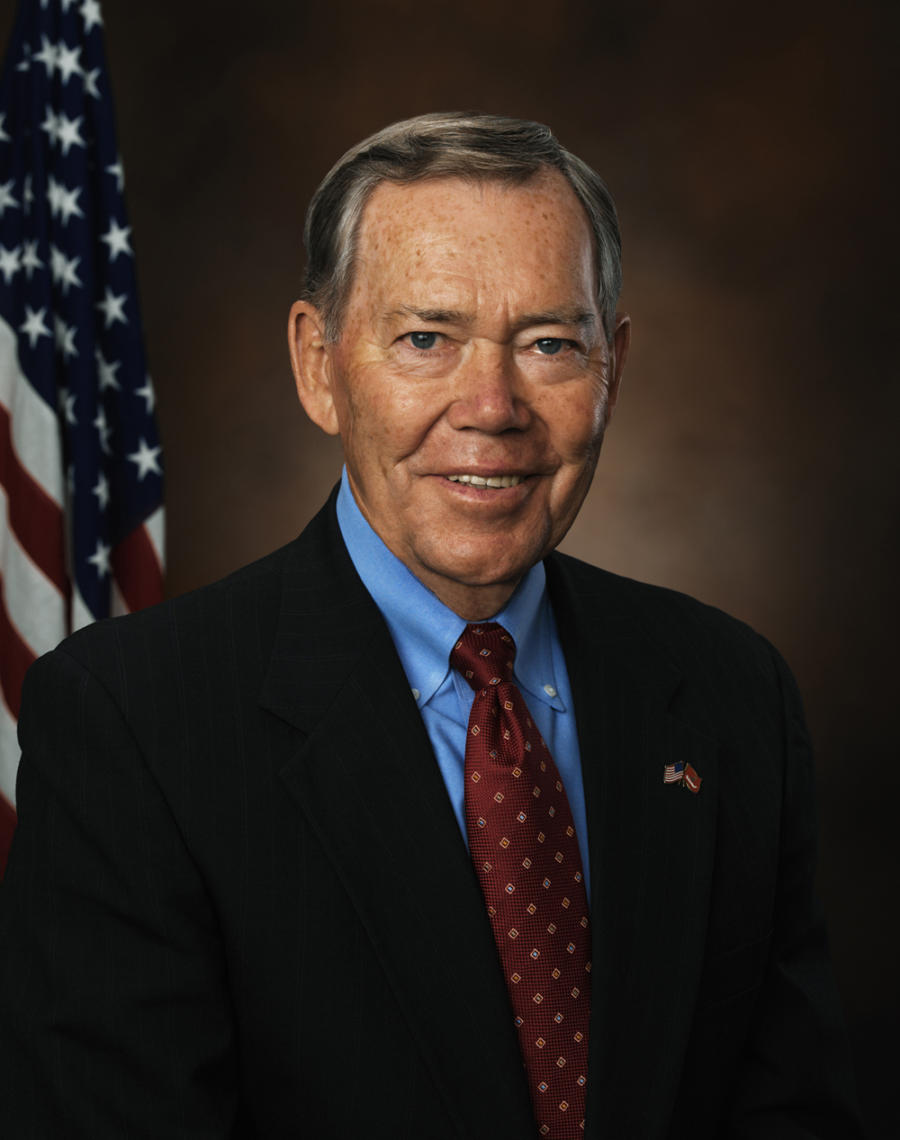 Craig Thomas, former Senator from Wyoming.